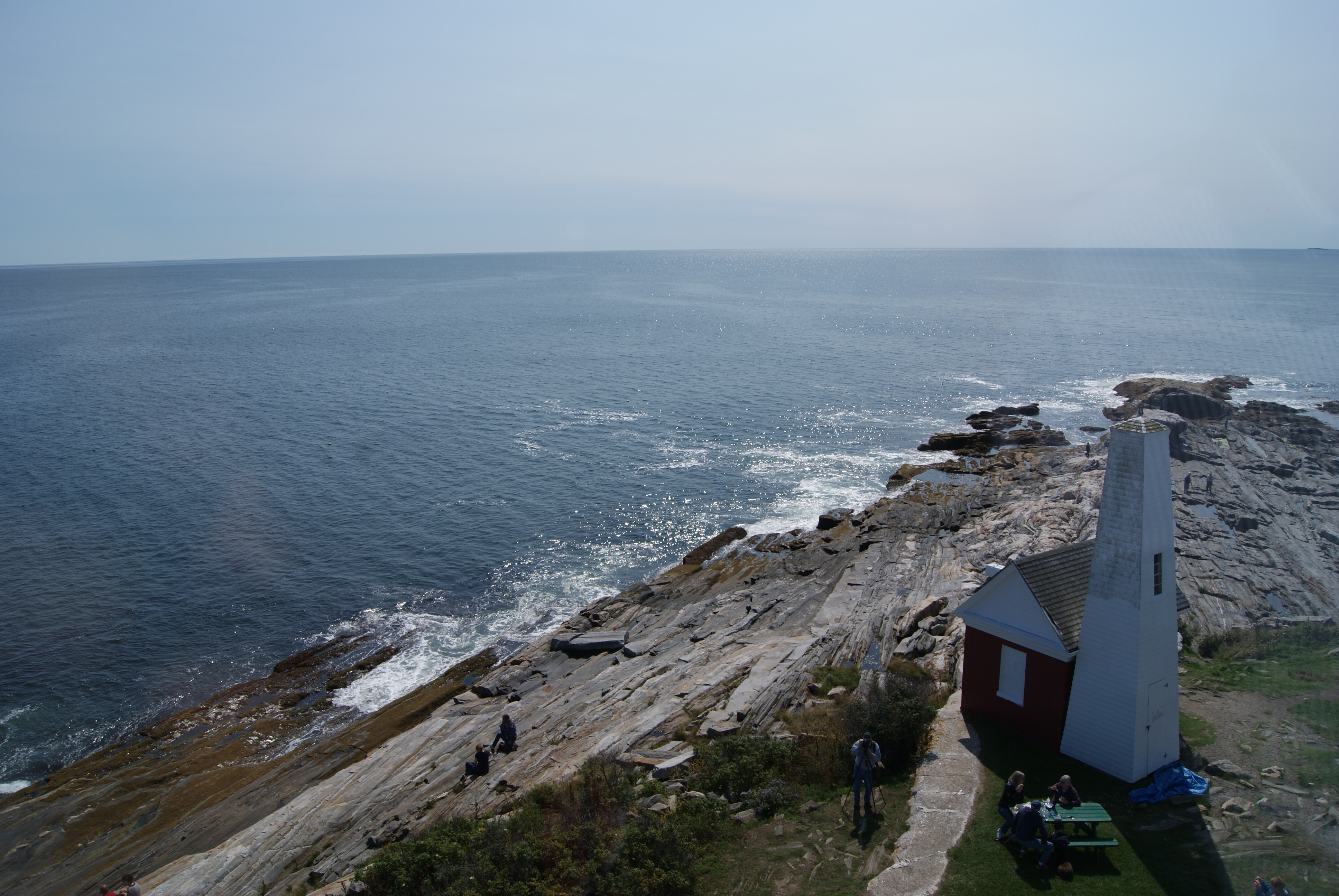 A view of Muscongus Bay from the top of Pemaquid Point Lighthouse in Bristol, Maine, USA.